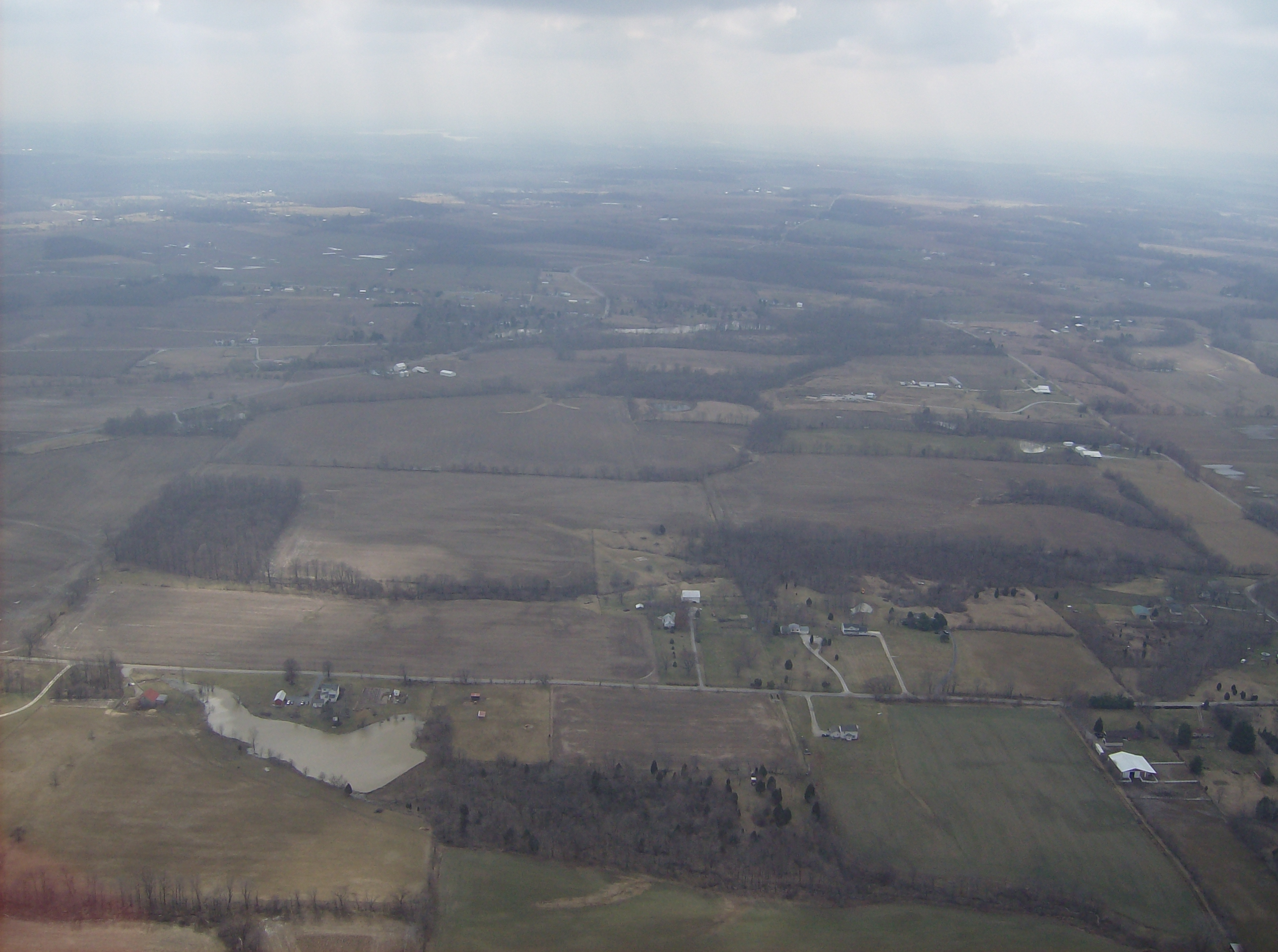 Countryside in far northern Caesarscreek Township, Greene County, Ohio, United States. Picture taken from a Diamond Eclipse light airplane at an altitude of 2,500 feet MSL and a bearing of approximately 232º.